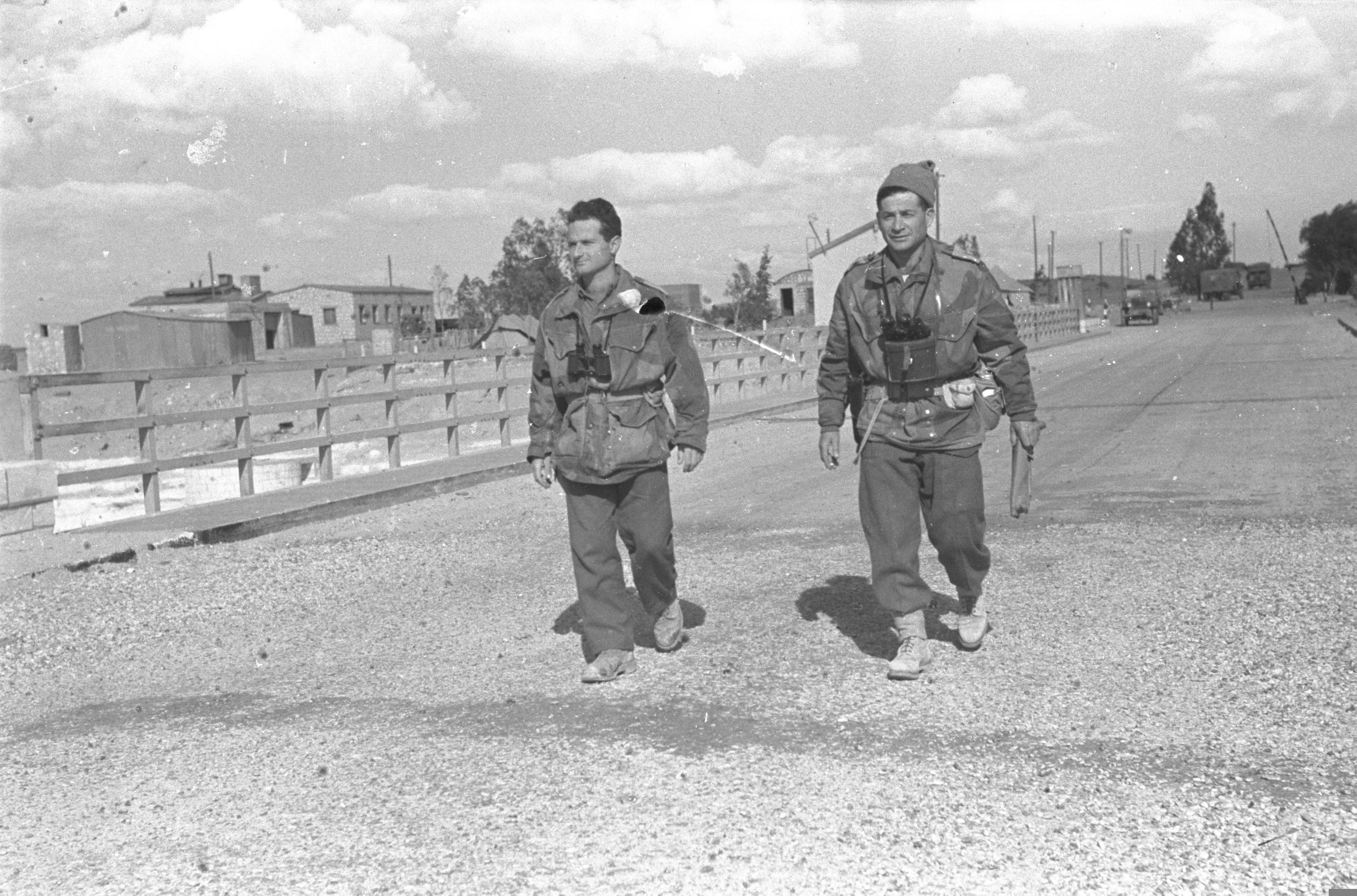 Original Description: WAR OF INDEPENDENCE. OPERATION HOREV. TWO IDF SOLDIERS CROSSING THE EL ABU AGHEILA BRIDGE IN EGYPT.